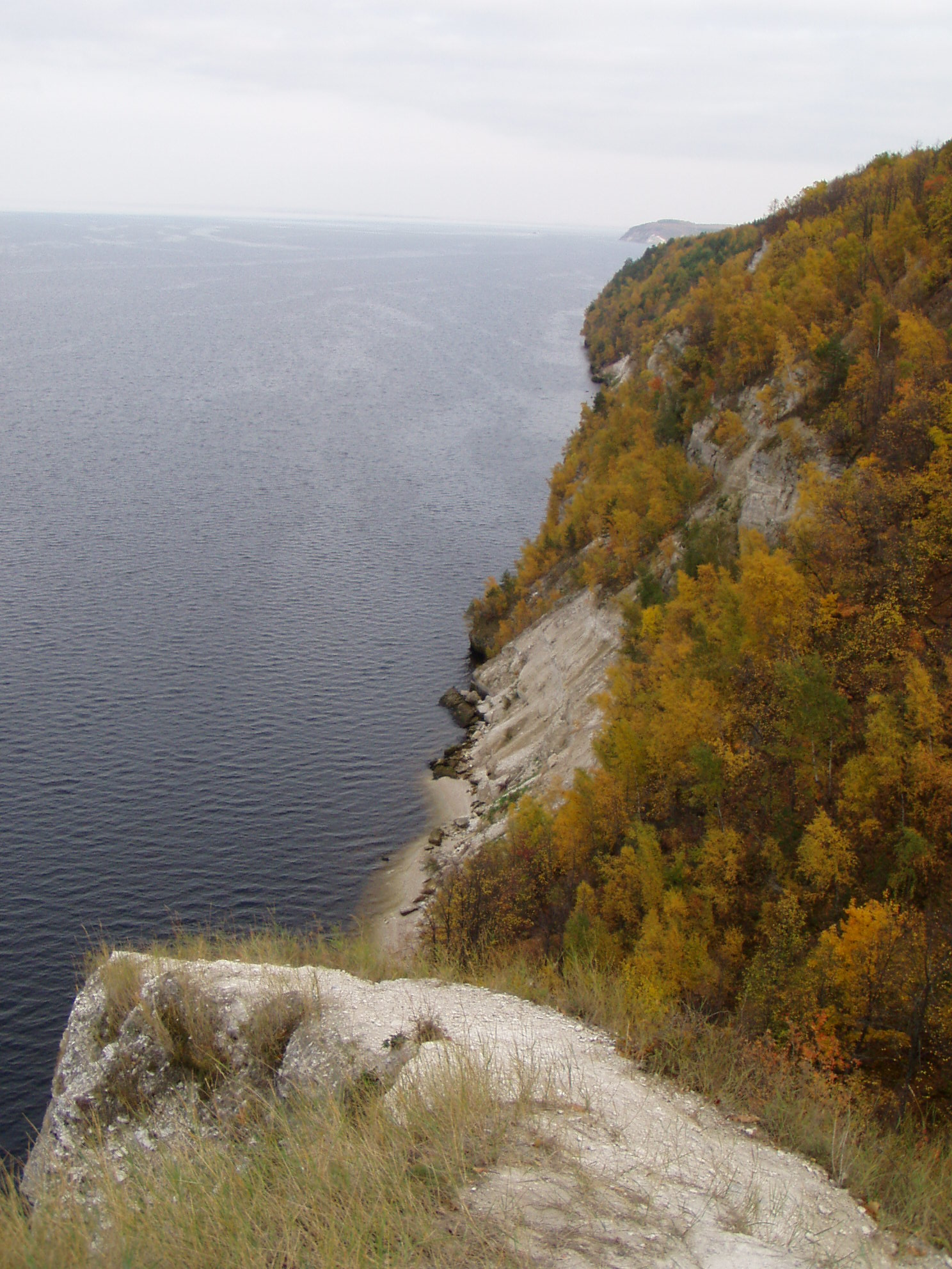 Kama mouth - Камское устье - Кама тамагы; Volga's right bank is usually precipitous; in some regions this steeps are called "mountains", and right bank themself is called "Mountainous side"